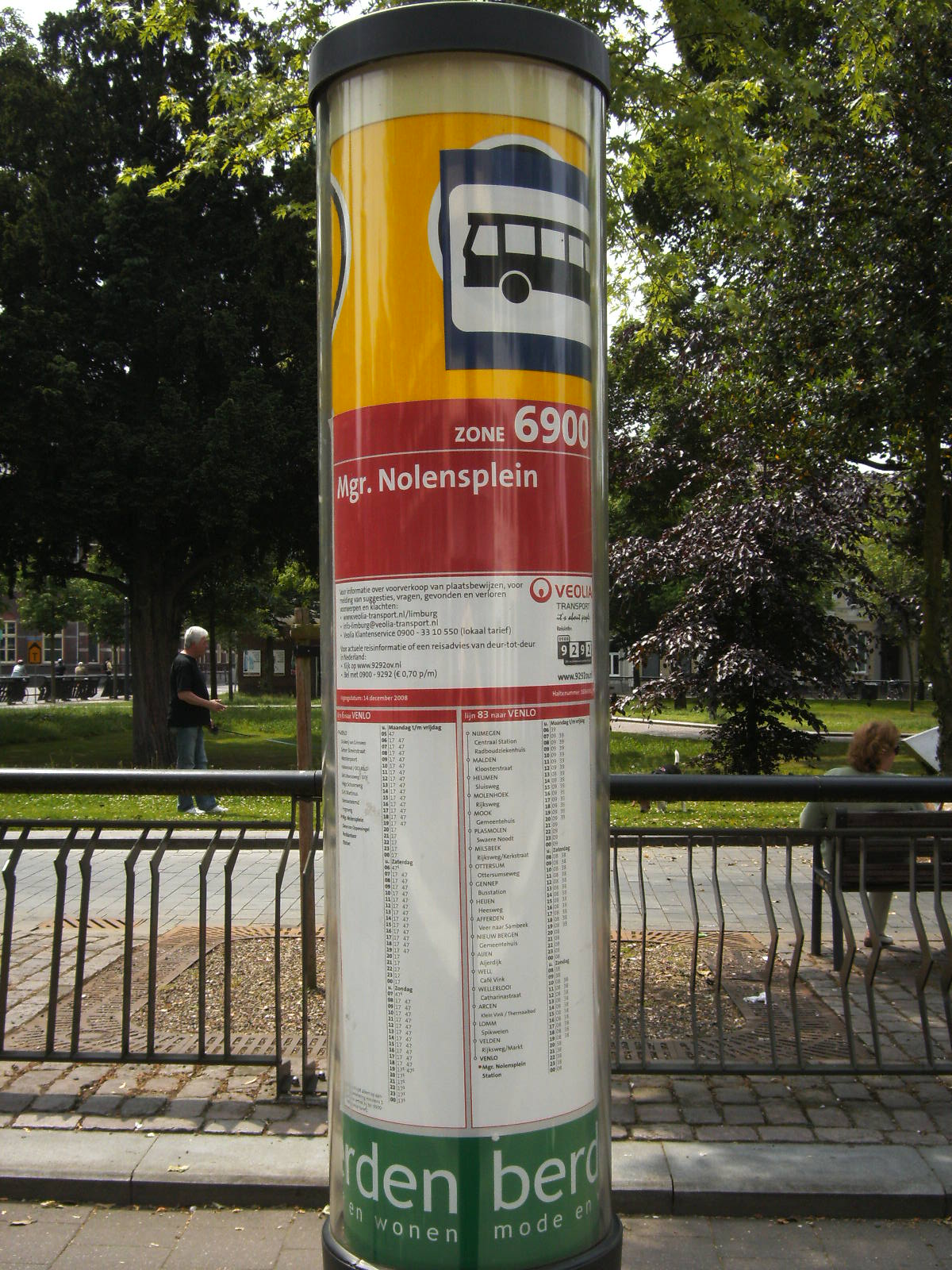 Bus stop "Moseigneur Nolensplein" in Venlo (Netherlands)